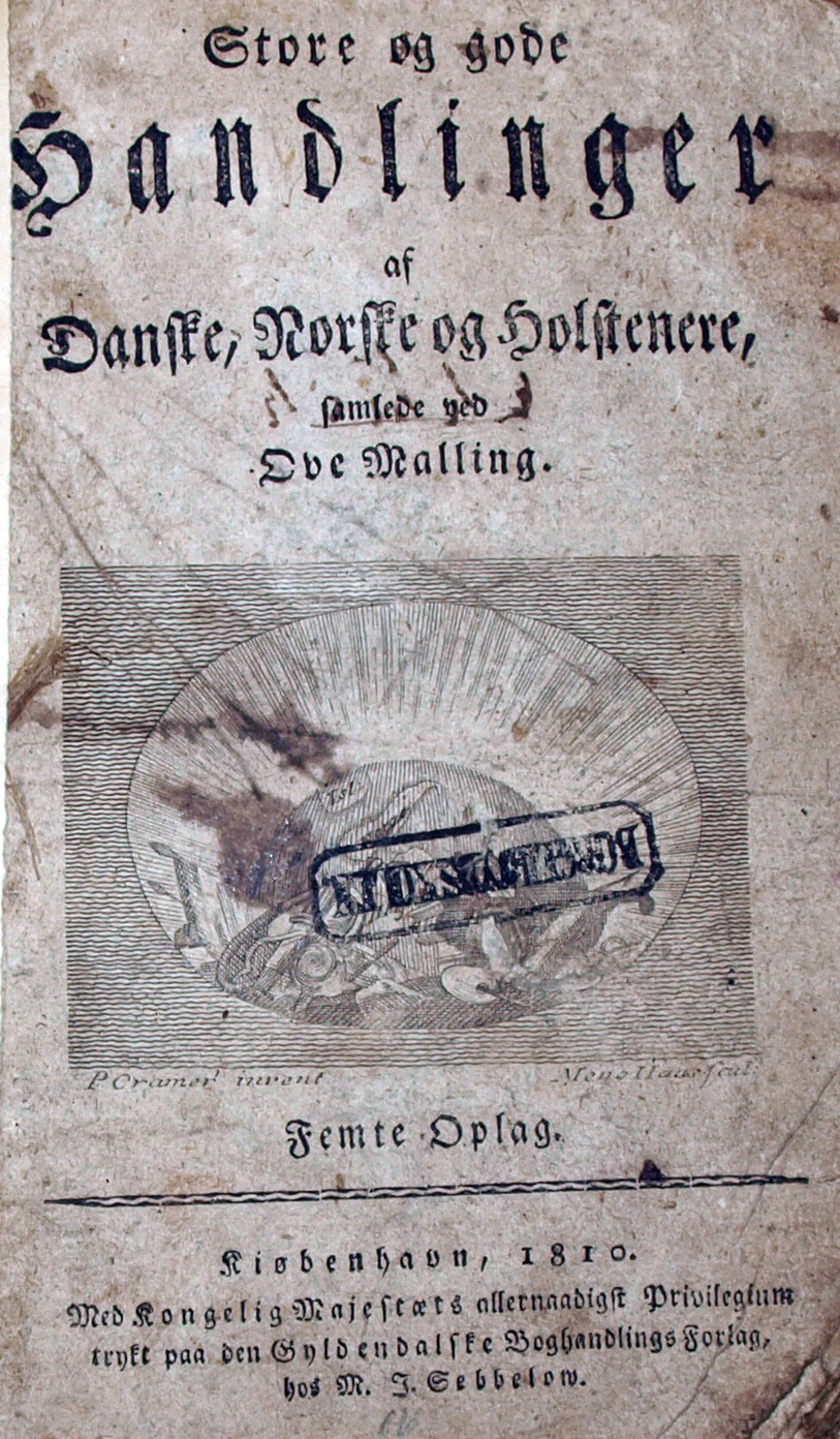 Title page of Ove Mallings "Store og gode Handlinger af Danske, Norske og Holstenere" ("Great and Good deeds of Danes, Norwegians and Holsteiners"), first edition from 1777 (this edition from 1810).